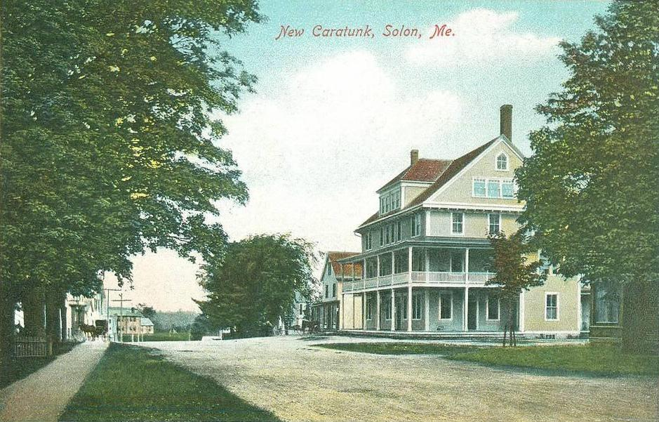 The New Caratunk, Solon, ME; from a 1907 postcard published by the Metropolitan News Company, Boston, Massachusetts.